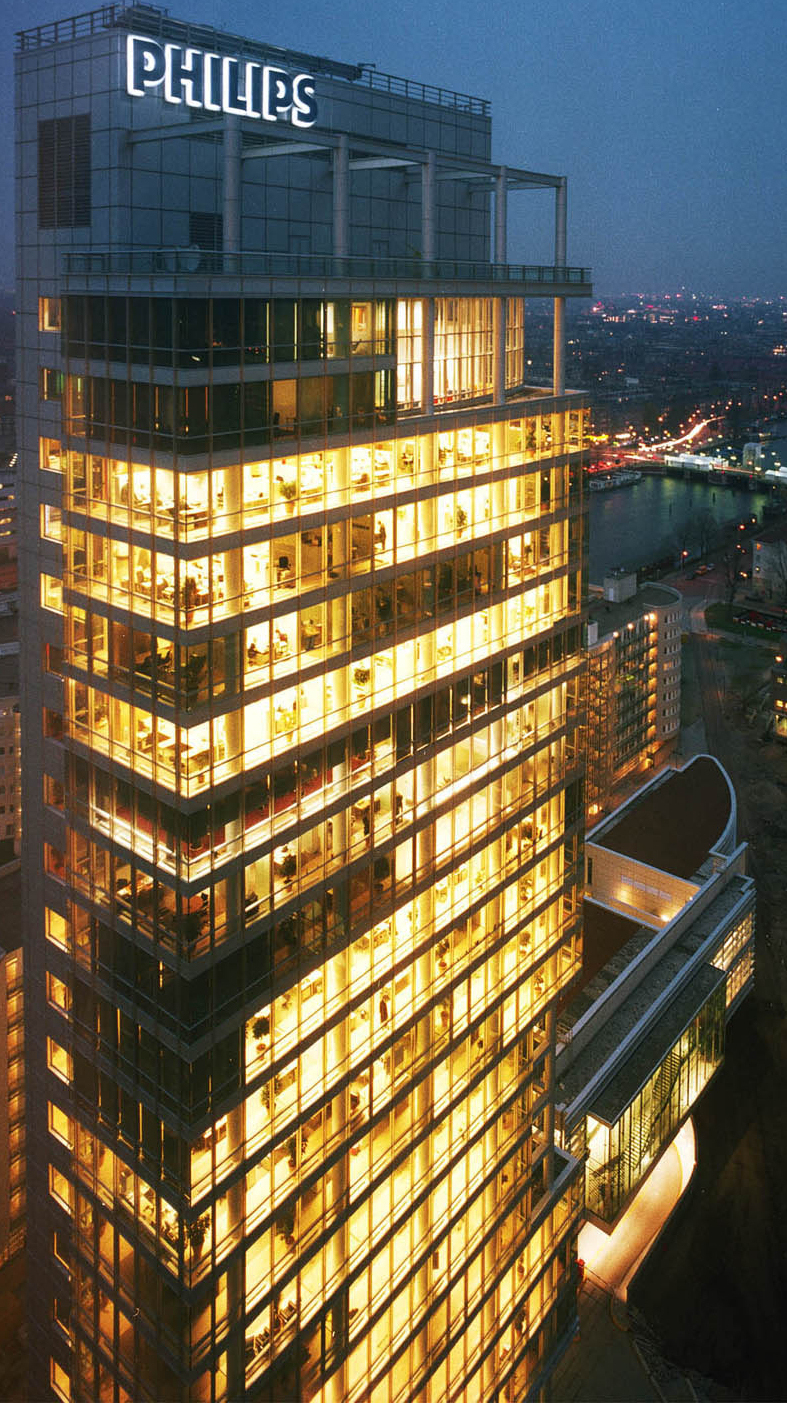 Head office of Philips at Amsterdam